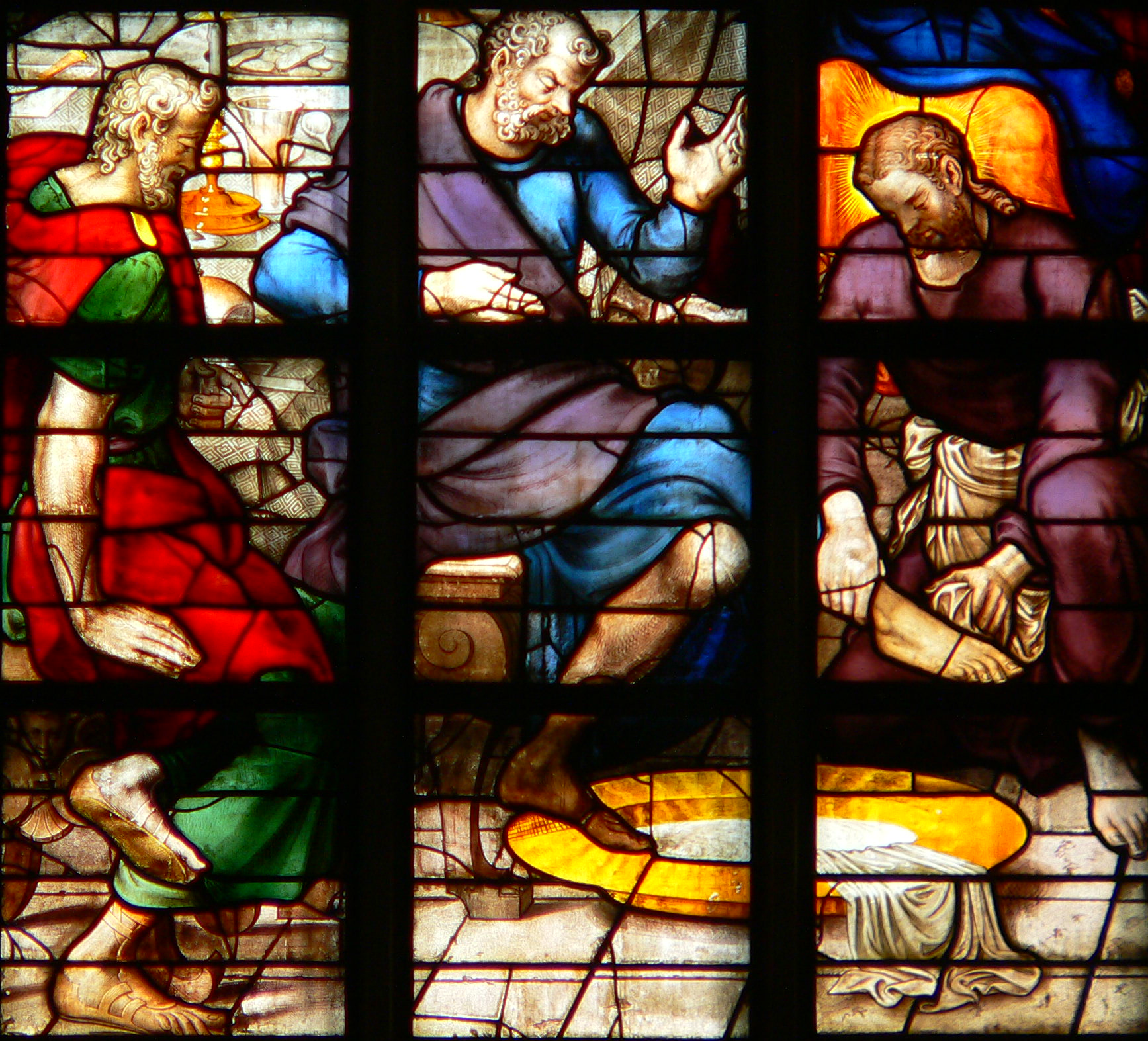 The stained-glass window number 23 (middle, detail) in the Sint Janskerk at Gouda/Netherlands: "Jesus washing the feet of the disciples"